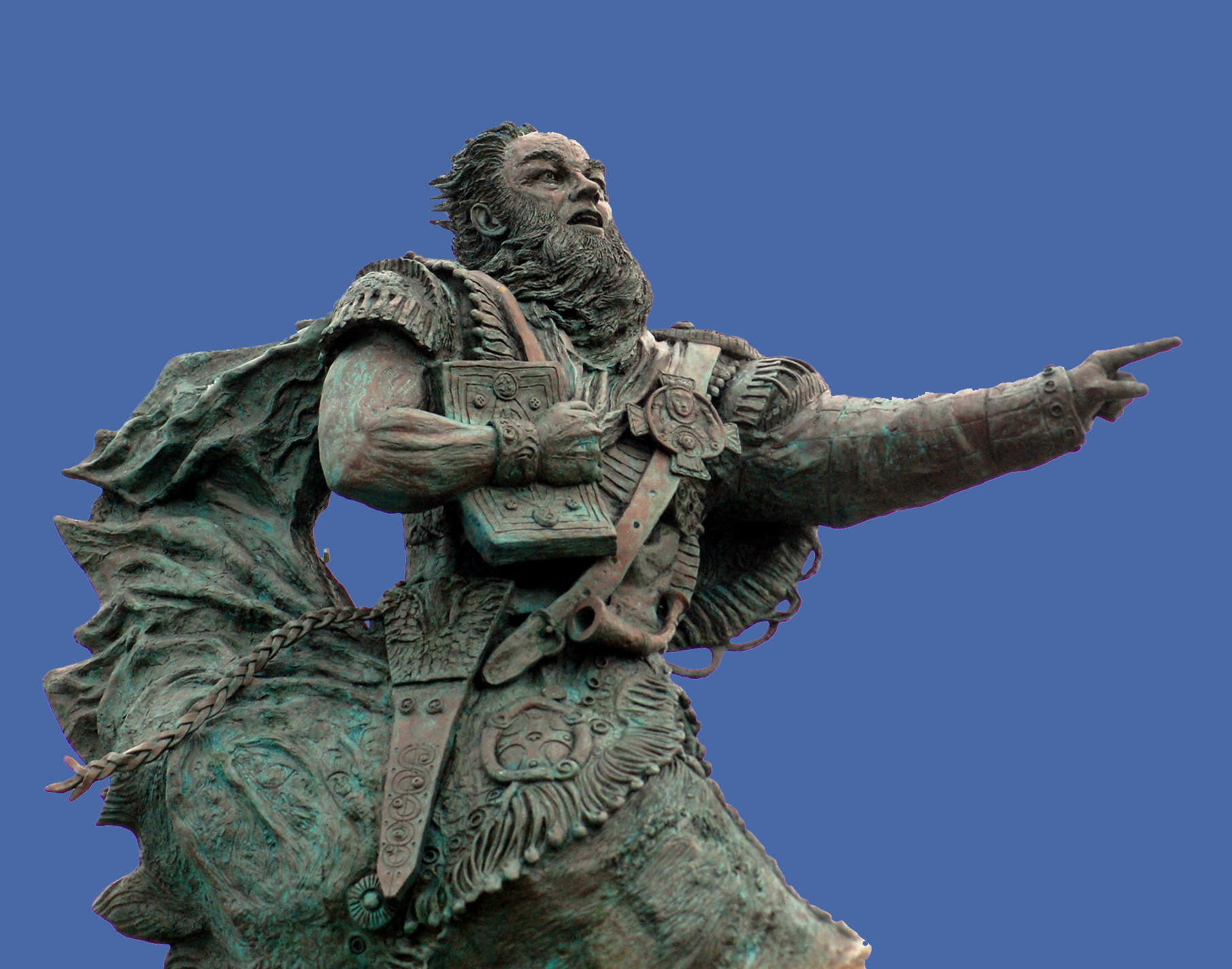 Derivative of File:"St. Brendan of the Gael", Fenit, Co Kerry by Tigue O'Donoghue.jpg. The statue is 12 feet tall and is placed at Great Samphire Rock in Fenit Harbour, Tralee. Brendan is pointing West to the mouth of Tralee Bay and the Atlantic Ocean, one knee bent and the other foot pushed back, bracing his body against "a force 10 gale" which blows his cloak out behind him.